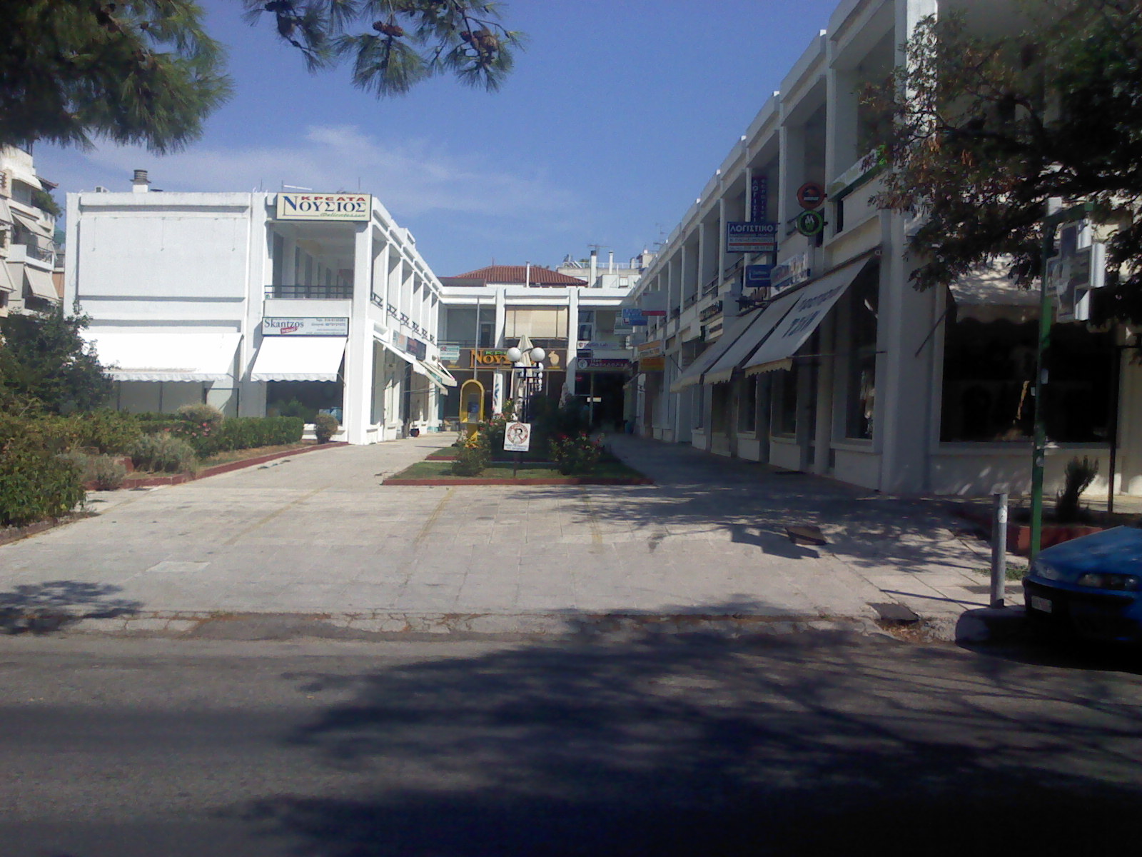 Central Emporium Akakion Polidroso